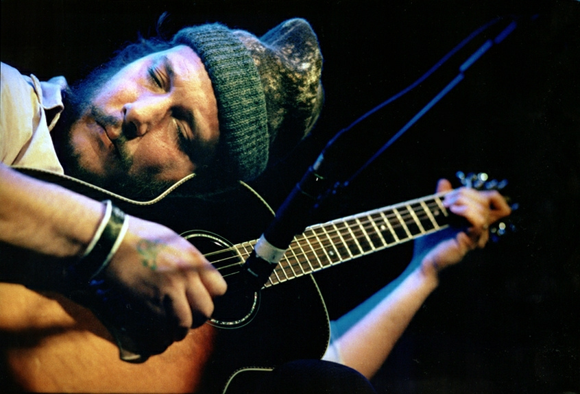 This is the original view of Jack Rose playing at the Luminaire in 2007 (not a reverse image)}. In addition, the location of the photo was changed from London to a totally different country- whether someone spammed it to also gain the opposite facing photo as well, is possible. The photographer is a professional, and would not make such mistakes.